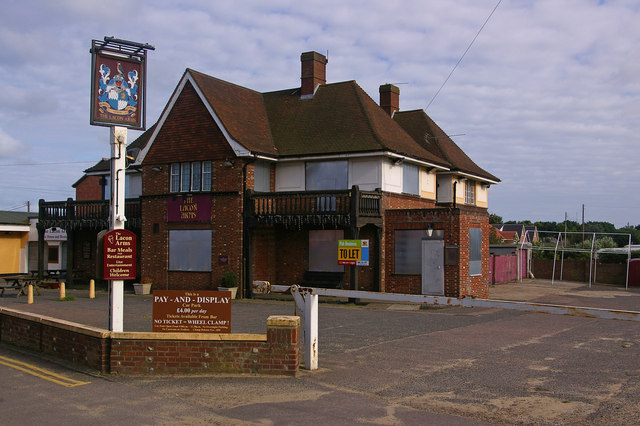 The Lacon Arms, Hemsby Opened in 1934 by Lacons, a Great Yarmouth brewery. The pub was closed and boarded up when this photo was taken.